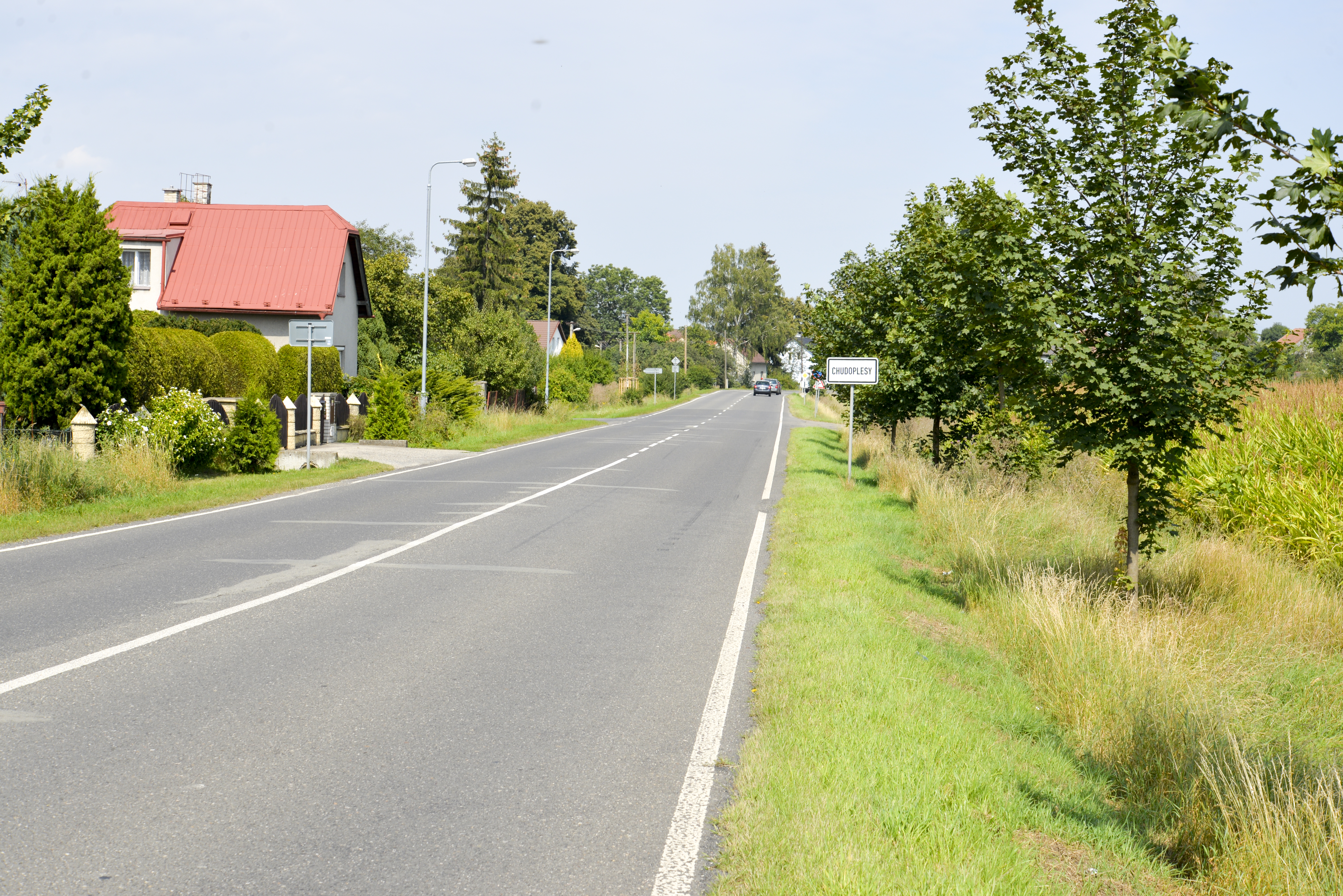 Chudoplesy, part of city Bakov nad Jizerou in Mladá Boleslav District